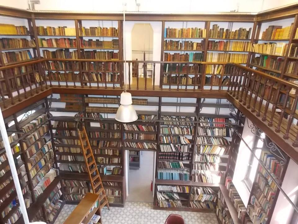 Colección de la Biblioteca Central de Educación Secundaria "Dr. Carlos Real de Azúa", ubicada en el Instituto Alfredo Vázquez Acevedo.